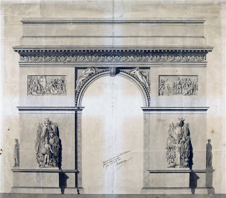 Architectural drawing of a project for the Arc de Triomphe in Paris.